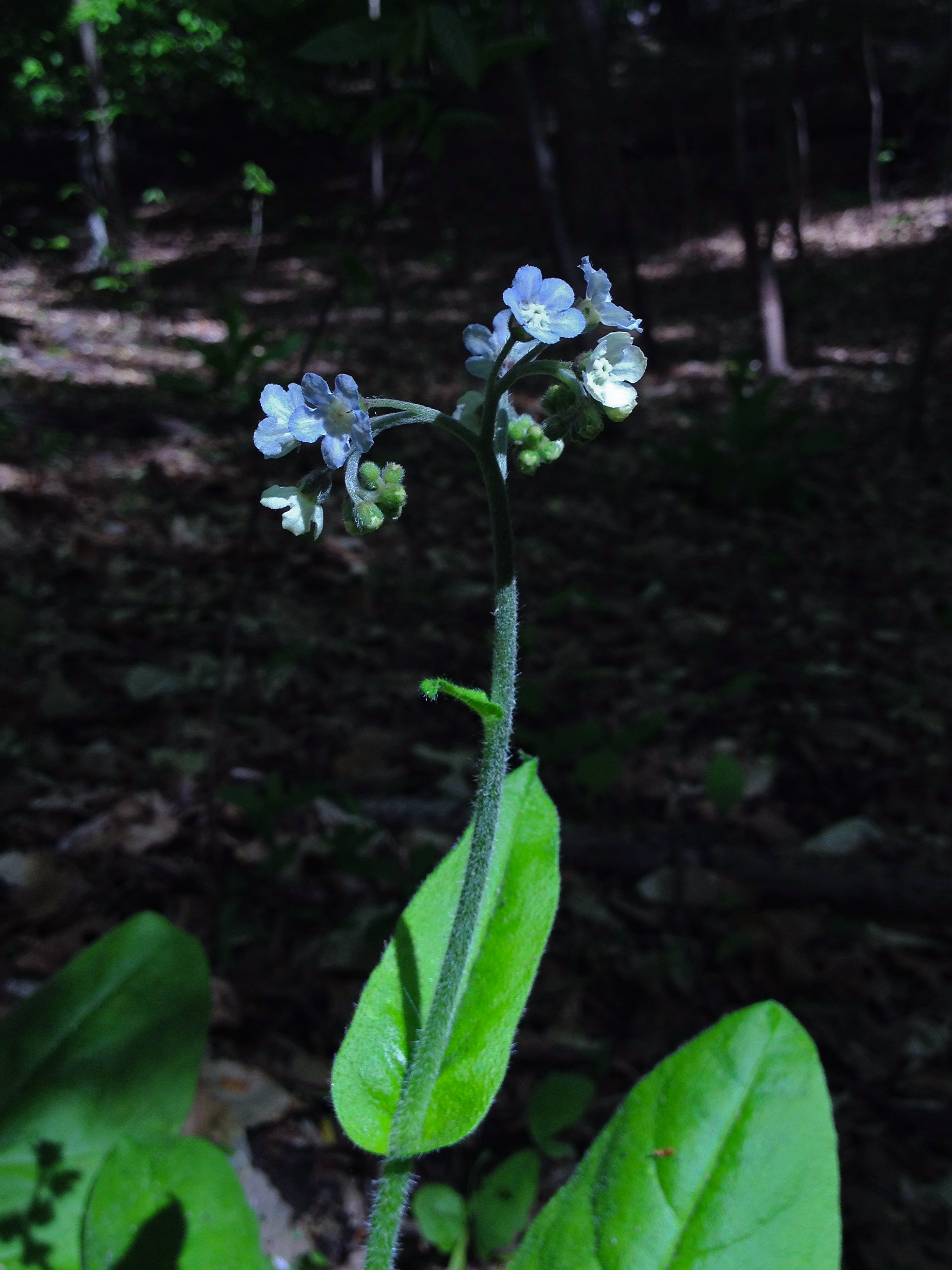 Photo of Cynoglossum virginianum in flower. This is a native plant growing wild in Rock Creek Park, Washington, D.C., USA. This species is a member of the Boraginaceae family.